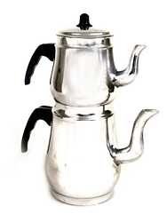 Tukish tea-kettle, Çaydanlık.